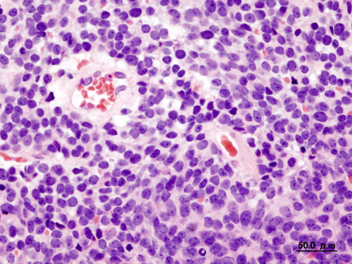 Histopathologic image of medulloblastoma in cerebellar vermis in an adult patient. The same case as shown in a file "Cerebellar_medulloblastoma_(1)_in_adult.JPG". H & E stain.